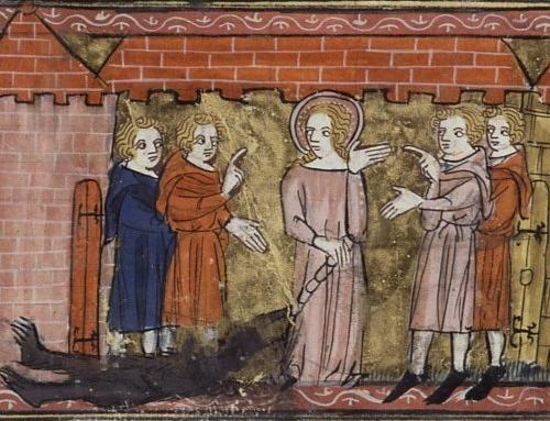 Sainte Julienne liant le diable (Saint Juliana binding the Devil).